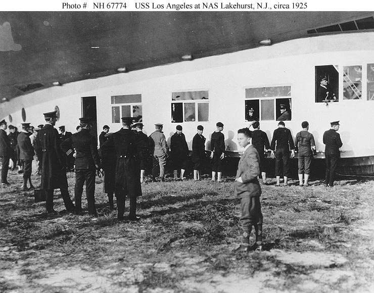 USS Los Angeles (ZR-3), view of the airship's control car, taken while she on the ground at Naval Air Station Lakehurst, New Jersey, circa 1925. Assistant Secretary of the Navy Theodore D. Robinson was on board the airship at the time.